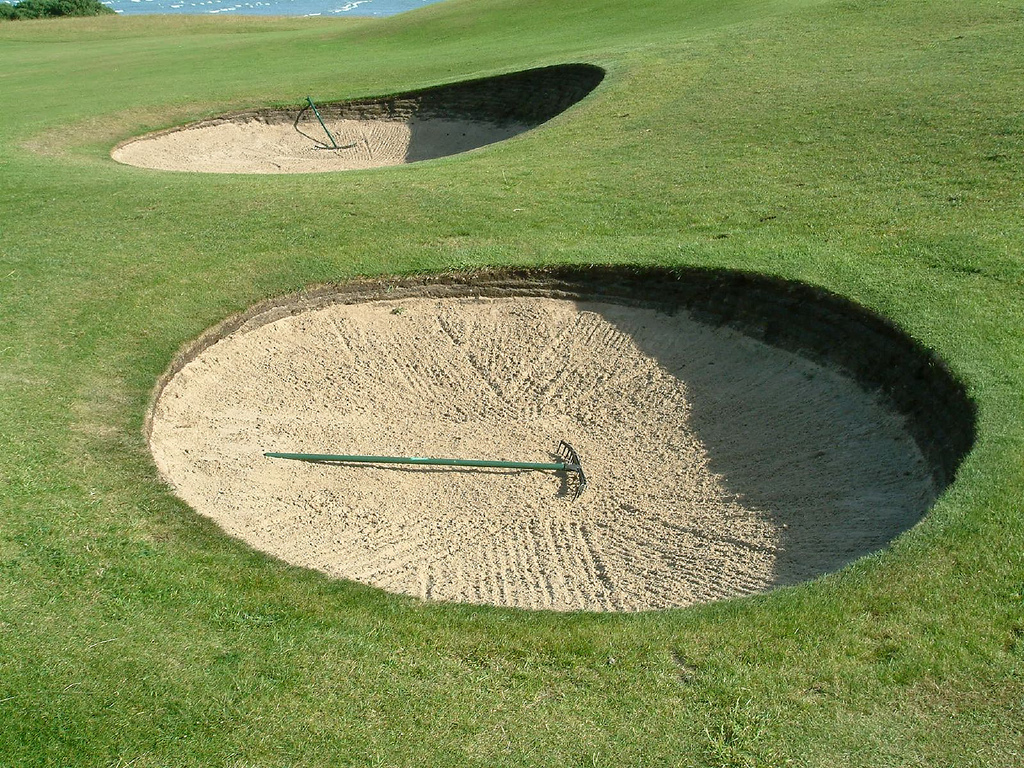 Golf bunkers.